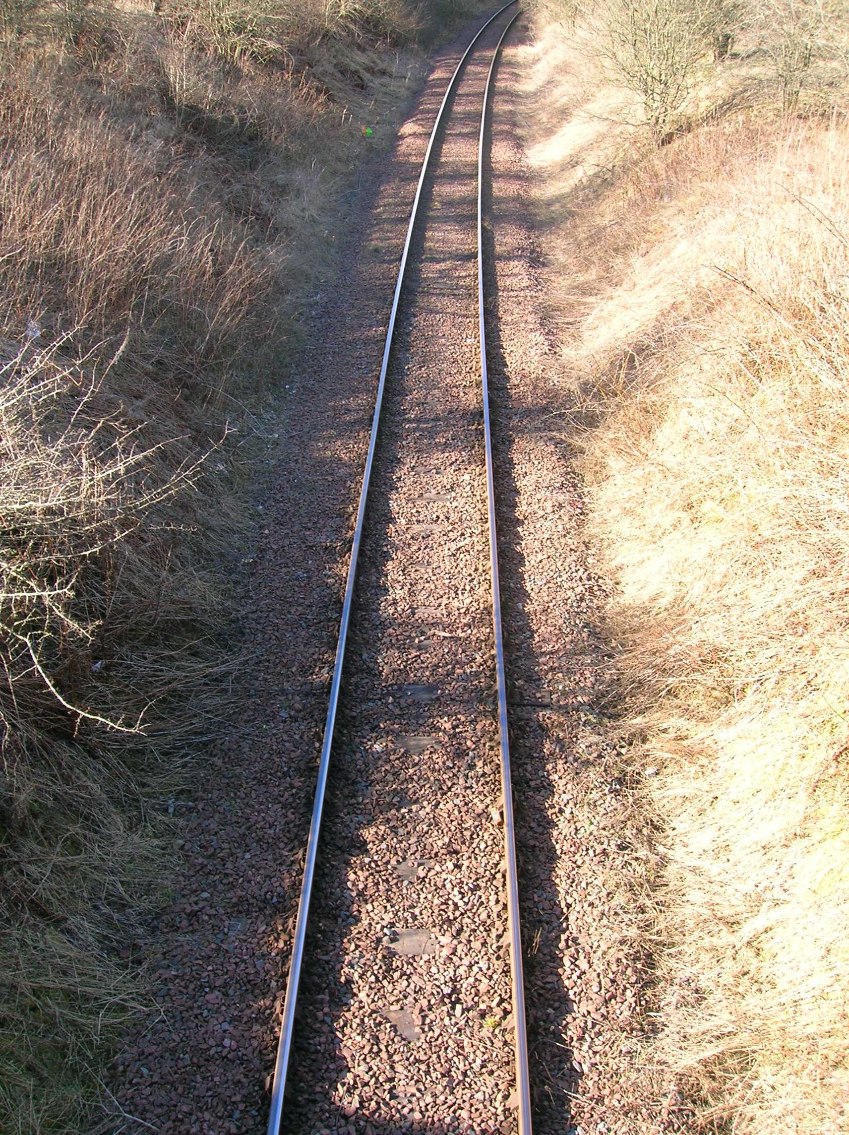 The site of the old Drongan railway station, Drongan, Ayrshire, Scotland.